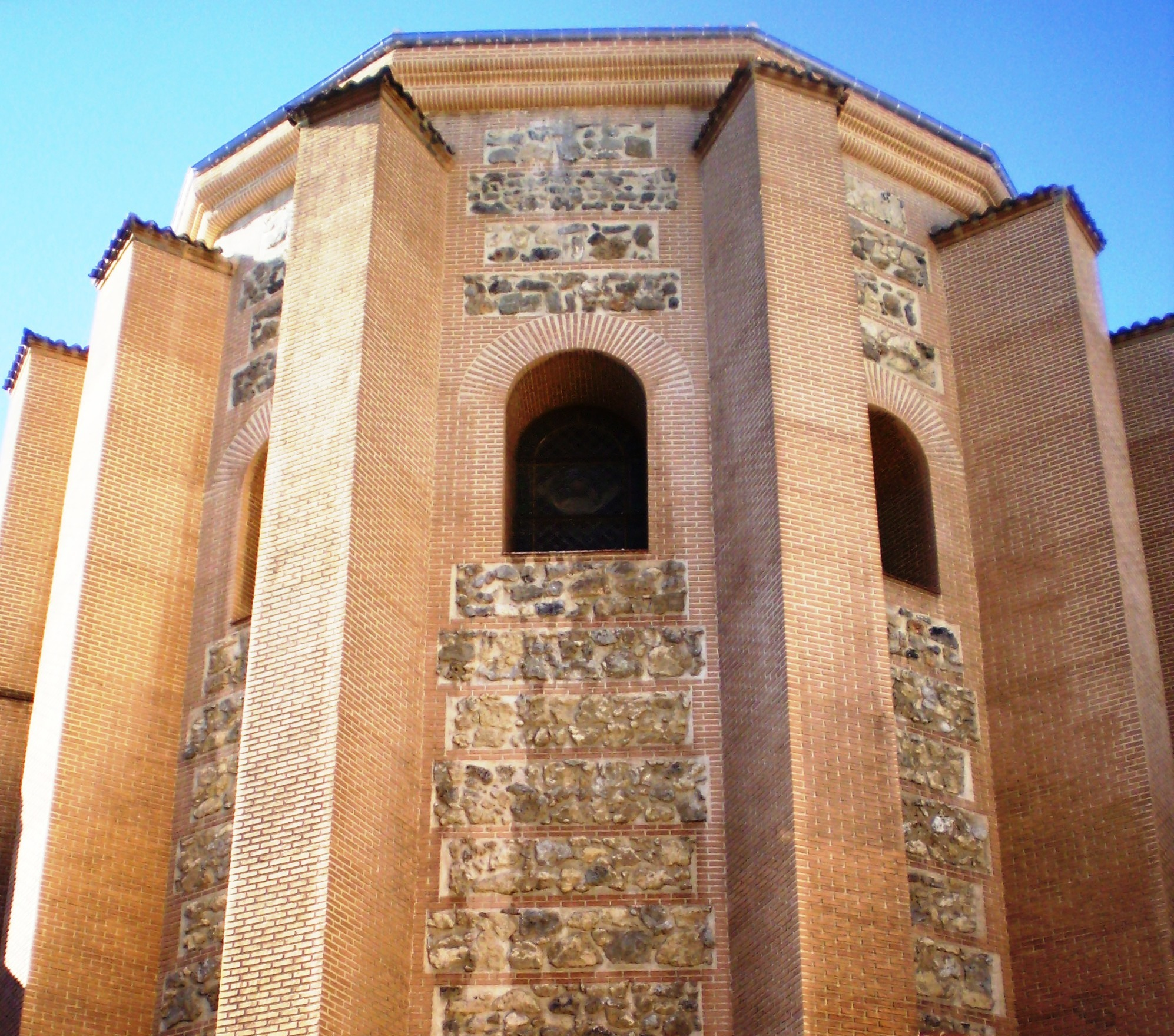 Capilla del Obispo Church. Madrid, Spain